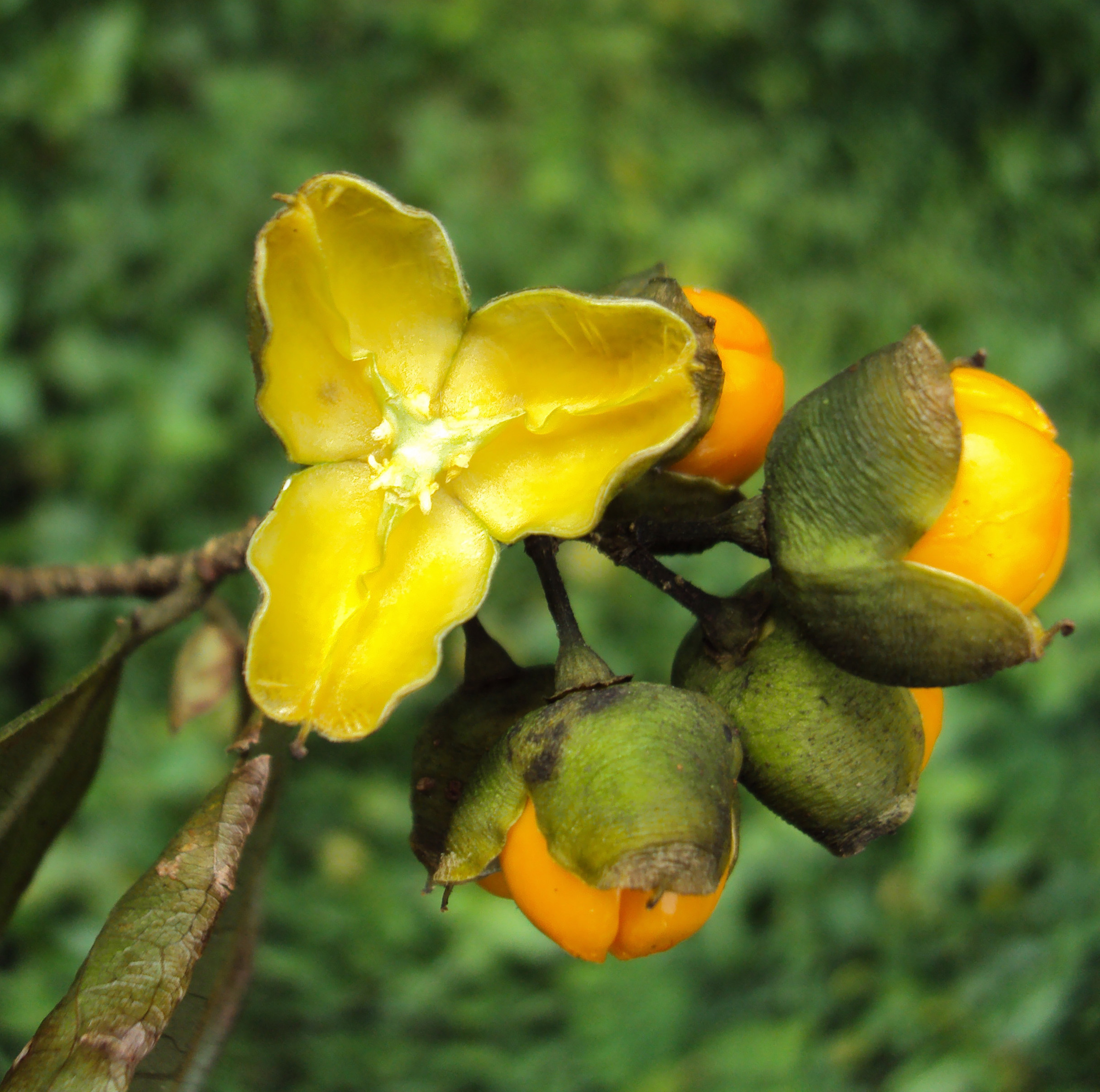 Celastrus paniculatus